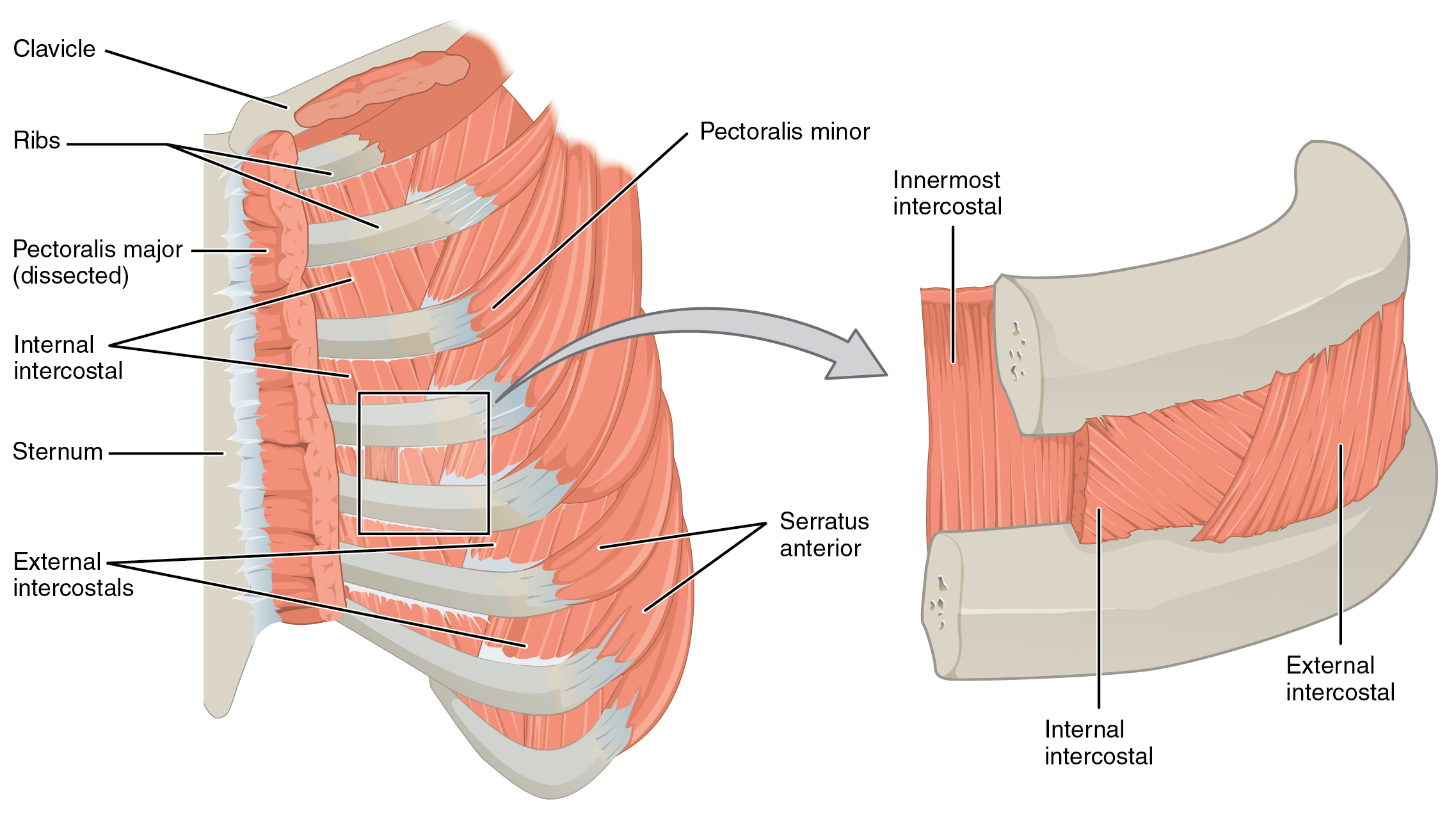 Version 8.25 from the Textbook OpenStax Anatomy and Physiology Published May 18, 2016